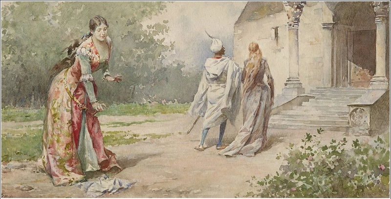 Othello